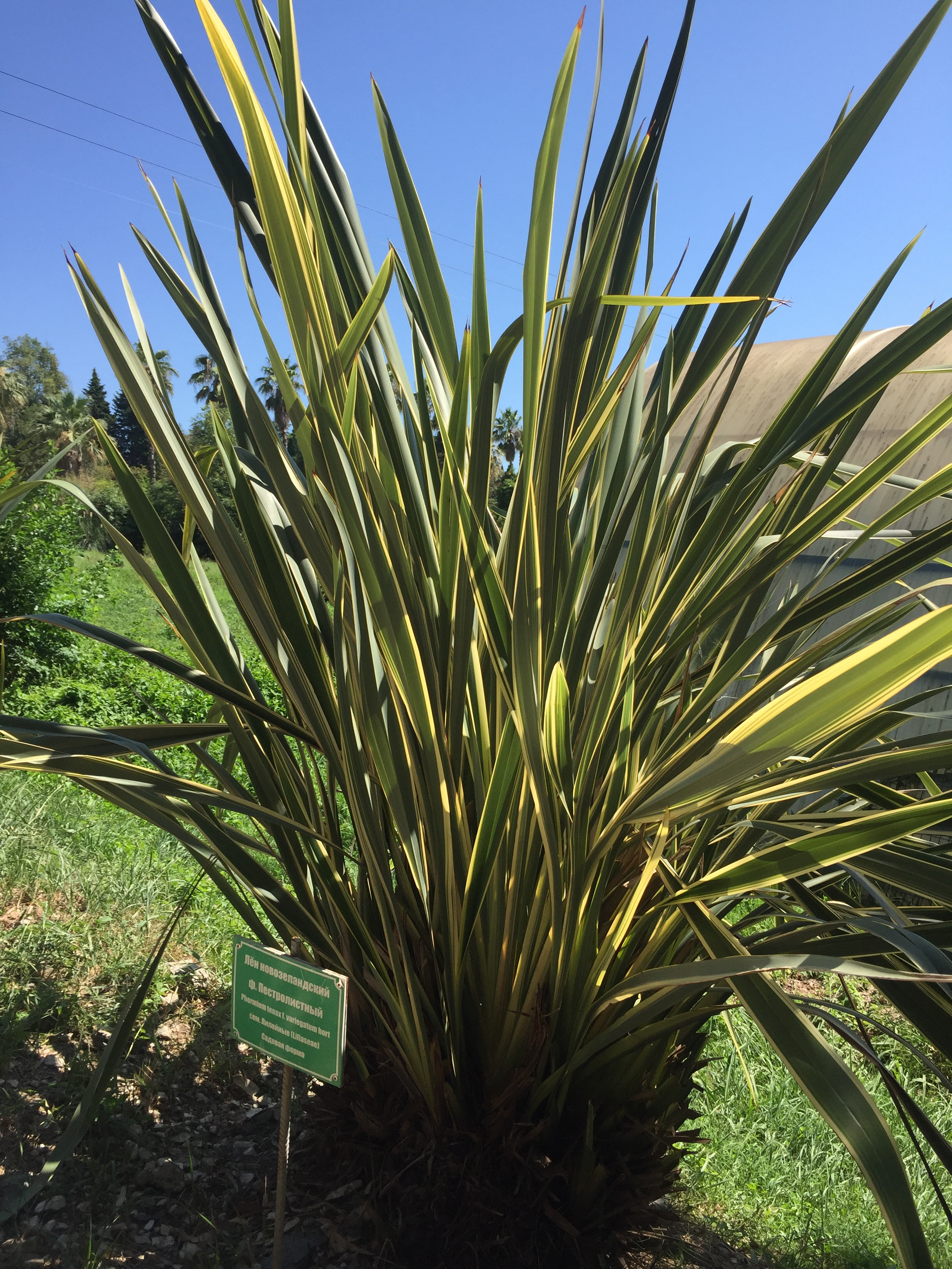 Flax New Zealand (Phormium tenax) in the dendrarri of the city of Sochi - Russia.